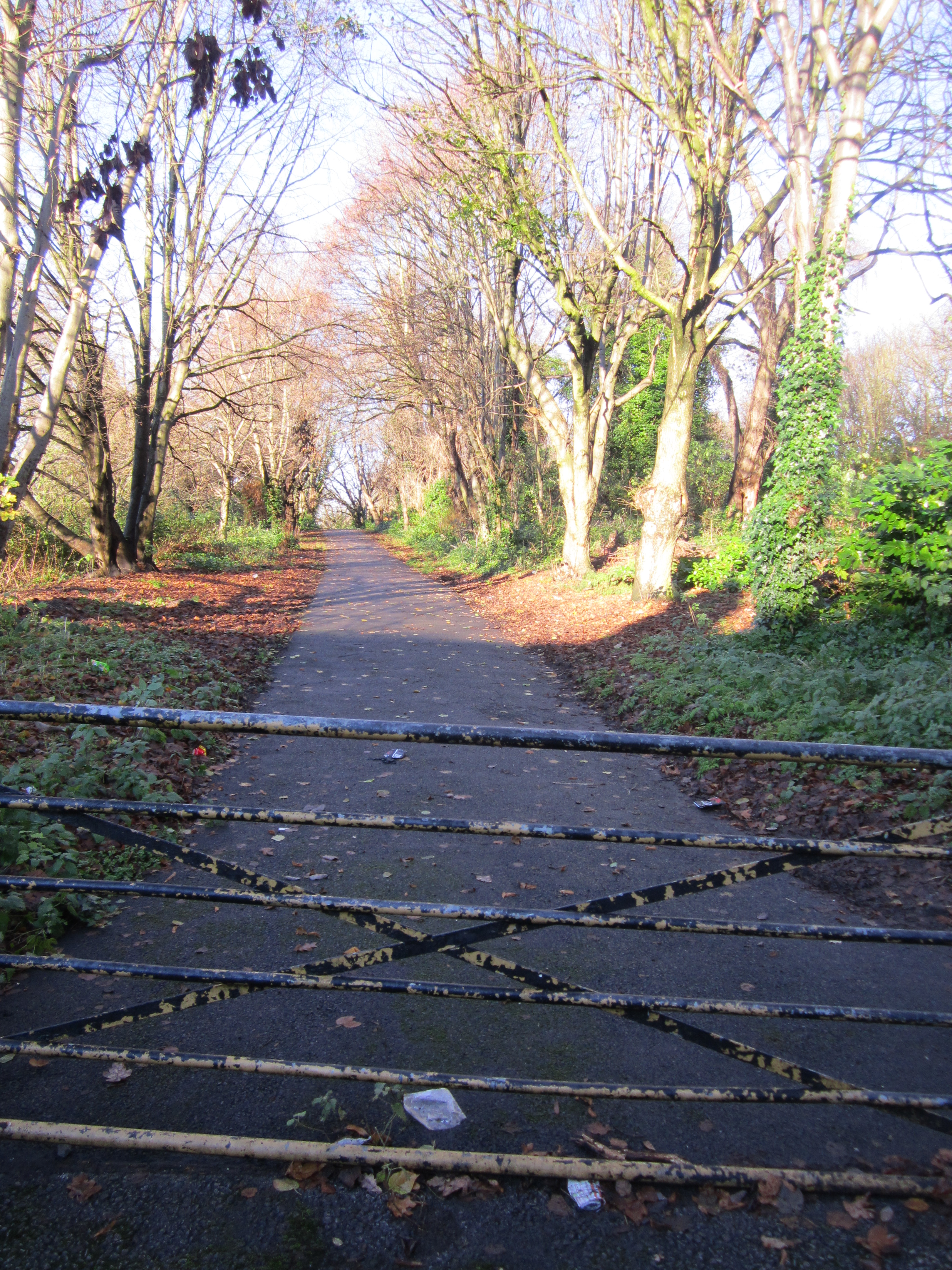 The disused Liverpool Loop railway line at Well Lane, Childwall, Liverpool, England. Now a cycleway and footpath.